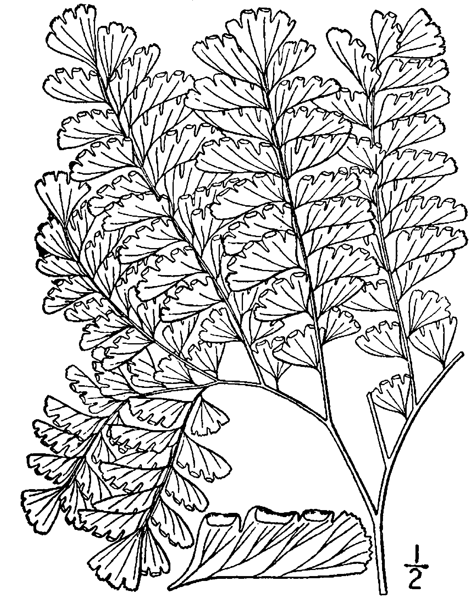 Northern Maidenhair. Drawing.